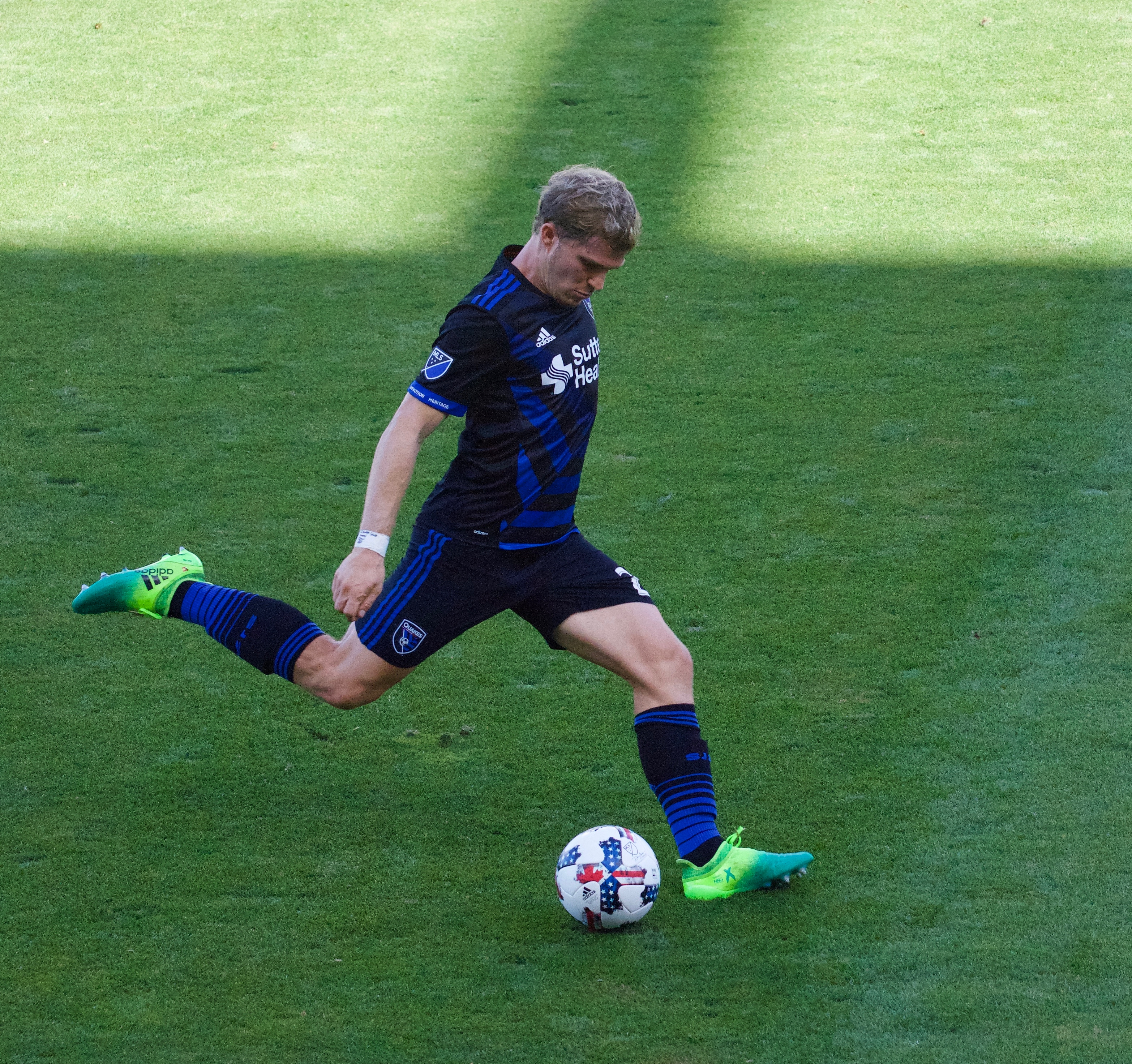 Florian Jungwirth playing for San Jose Earthquakes, Avaya Stadium, 29 July 2017